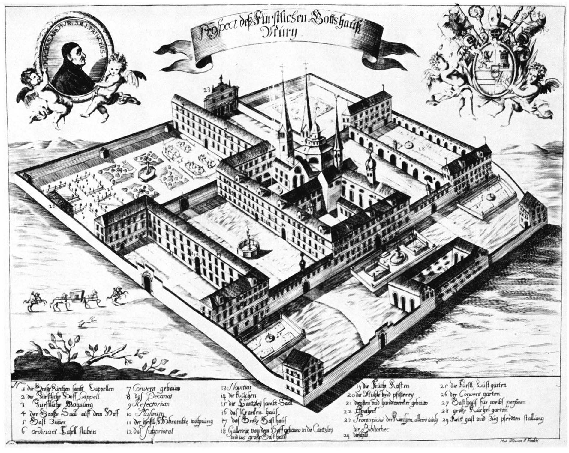 View of the Princely Monastery of Muri, by Matthias Wickart, after 1701.